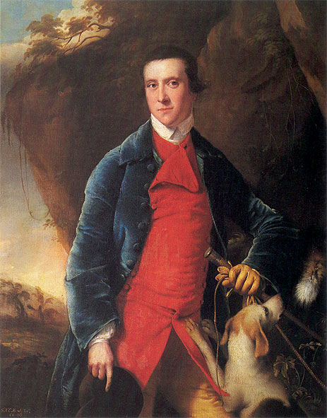 Francis Noel Clarke Mundy was born 1739. He died 23 Oct 1815 in aged 76. Francis married Elizabeth BURDETT. Elizabeth BURDETT died 2 Aug 1807. They had the following child: Francis MUNDY MP for Derby was born 29 Aug 1771 and died 1836